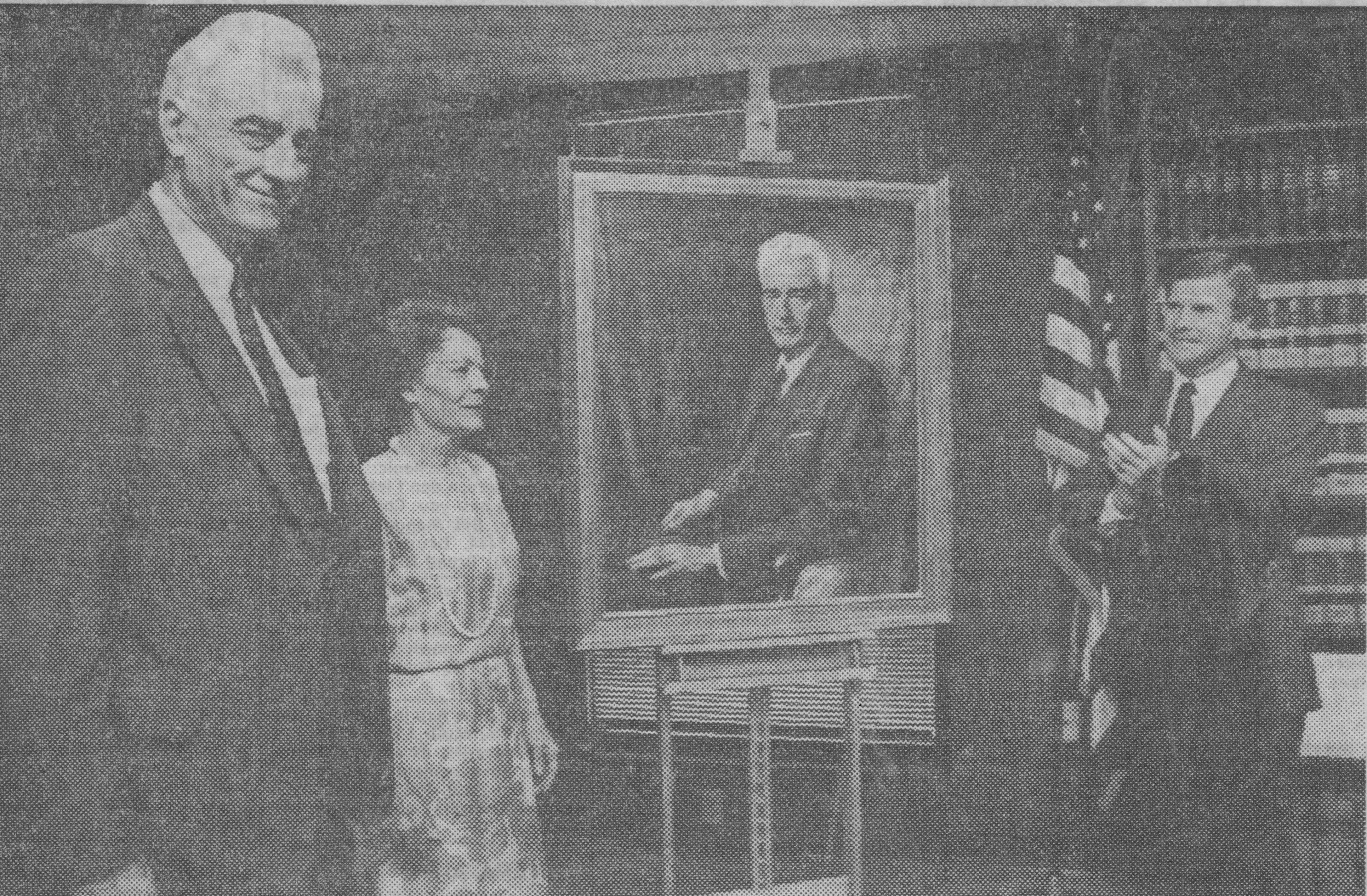 SC Labor Commissioner Edgar L. McGowan, stands with his wife, Mildred, and Governor Carroll Campbell after his portrait was unveiled during a ceremony at the Labor Department in 1988